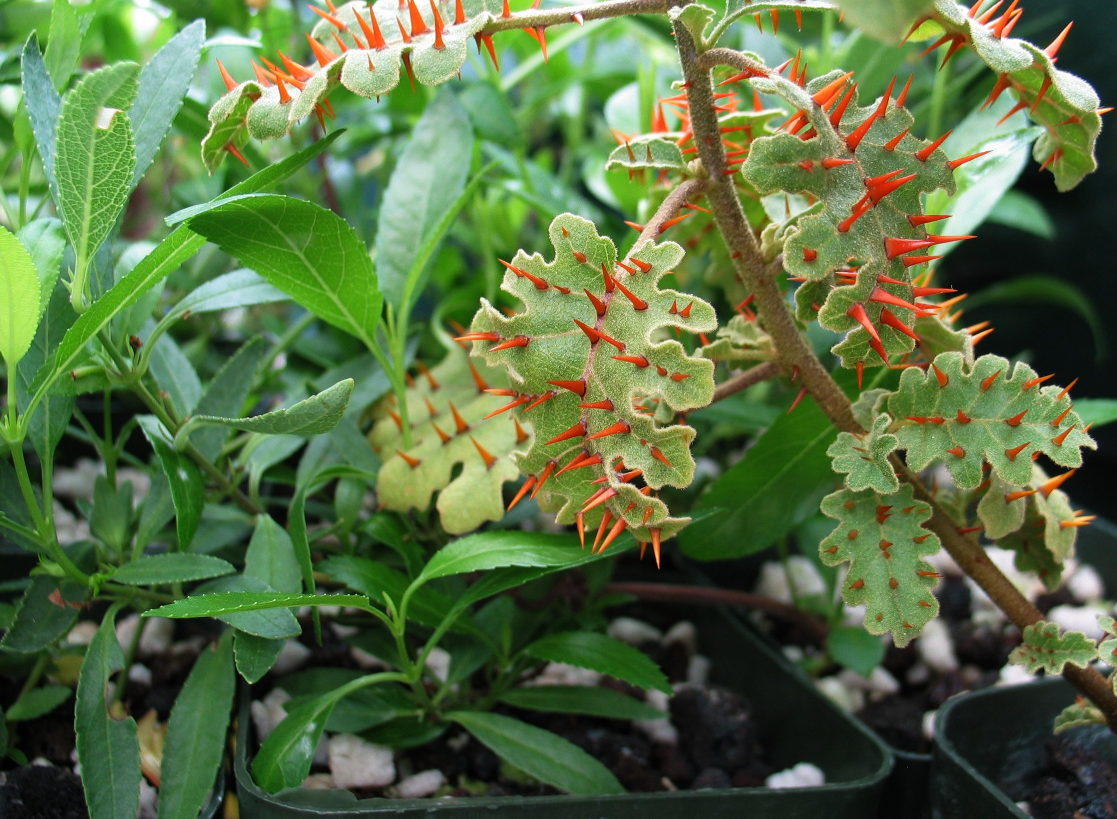 Two extremely rare and endangered endemic Hawaiian species: Aupaka (left) and Pōpolo kū mai (right) seedlings. Hawaiʻi Island (Cultivated) Aupaka, or Wahine noho kula (Isodendrion pyrifolium), Violaceae, related to violets (Viola). Pōpolo kū mai (Solanum incompletum), Solanaceae, a relative of tomatoes, eggplant, peppers and potatoes.